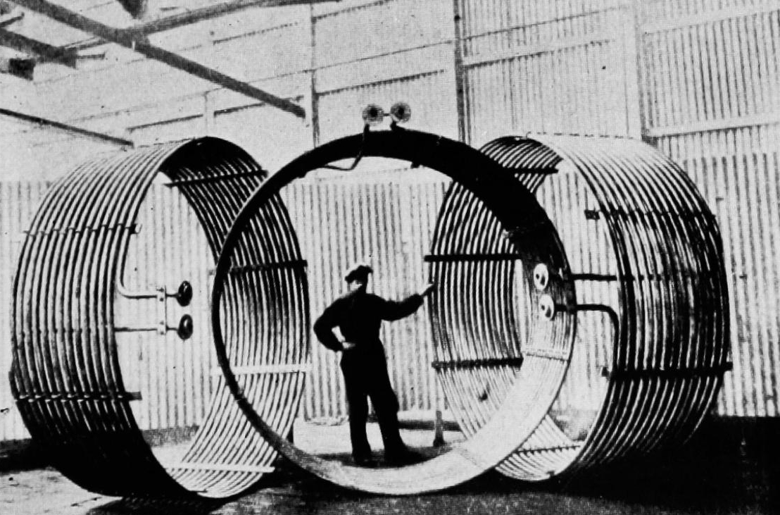 Stainless steel coiled tubes for chemical industry. the tube was manufactured by Sandvik in Swenden. The picture was taken in 1937 or earlier.